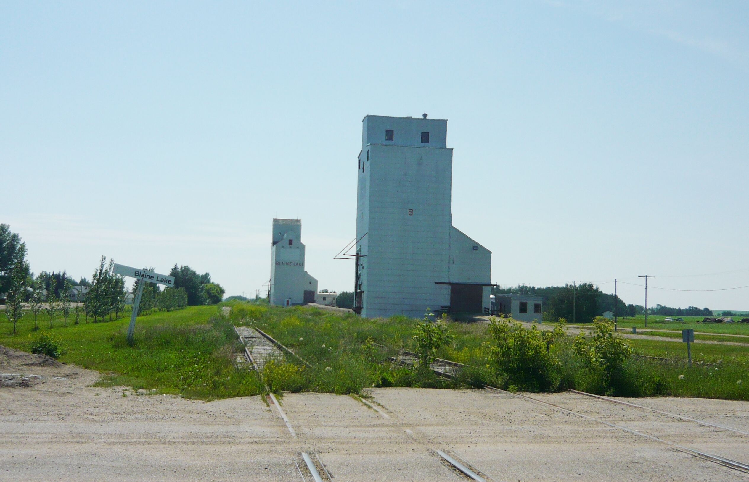 Grain elevators at Blaine Lake, Saskatchewan, Canada. Photo taken from the railroad crossing at Main Street.